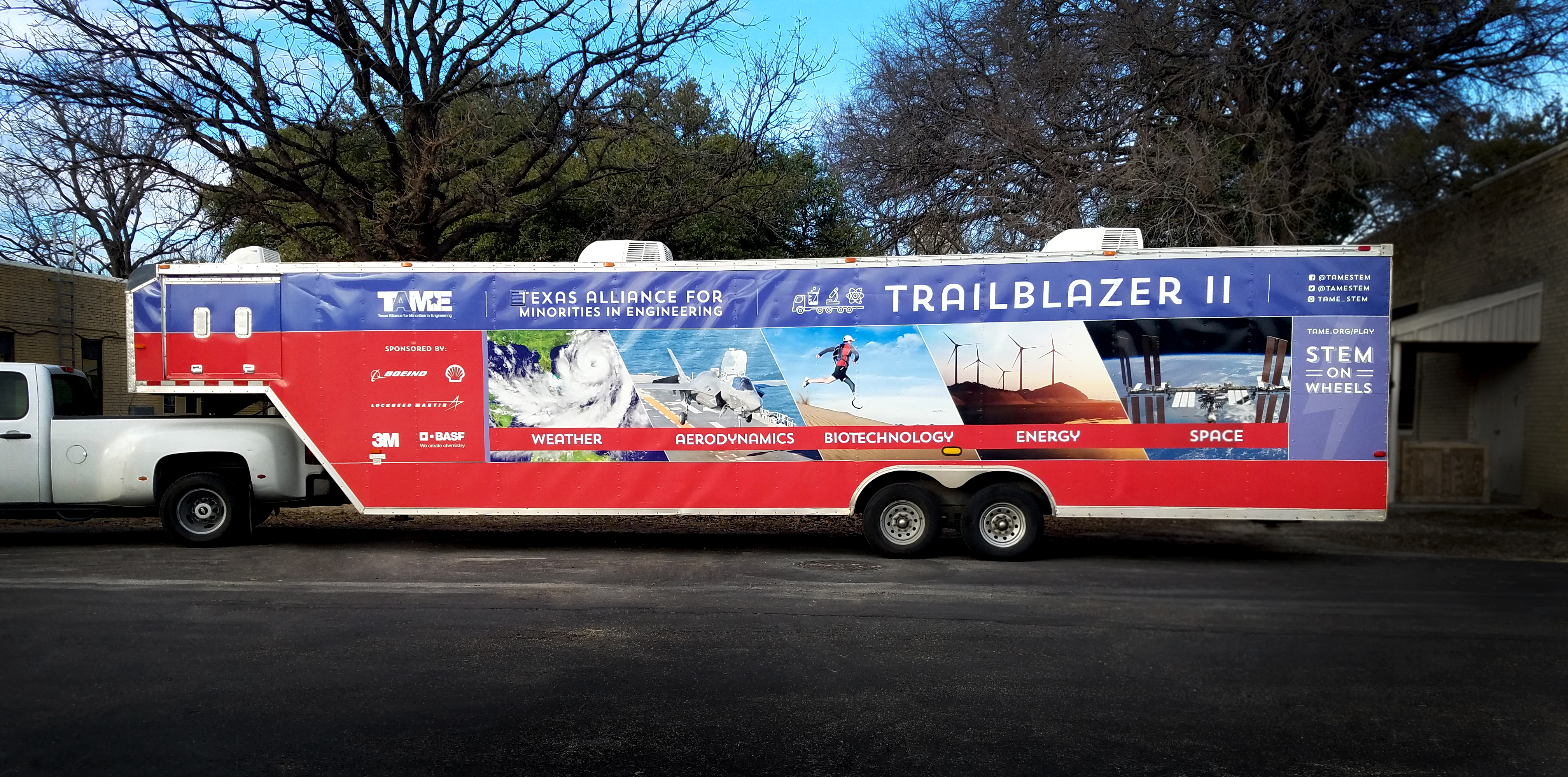 Profile view of the Trailblazer II mobile STEM museum, taken in January 2018 in Austin, Texas. The Trailblazer program is offered by the Texas Alliance for Minorities in Engineering (TAME), to inspire students across Texas to launch careers in STEM. Learn more at